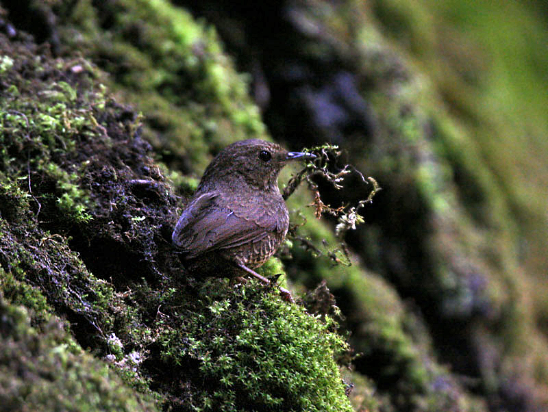 Scaly-breasted Wren Babbler Pnoepyga albiventer in Kullu District of Himachal Pradesh, India.